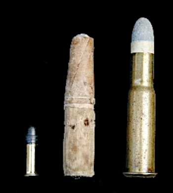 L: 22LR M: 11mm Paper cartridge for Chassepot/Fusil modèle 1866 R: 11mmx59.5R Metallic cartridge for Fusil Gras mle 1874